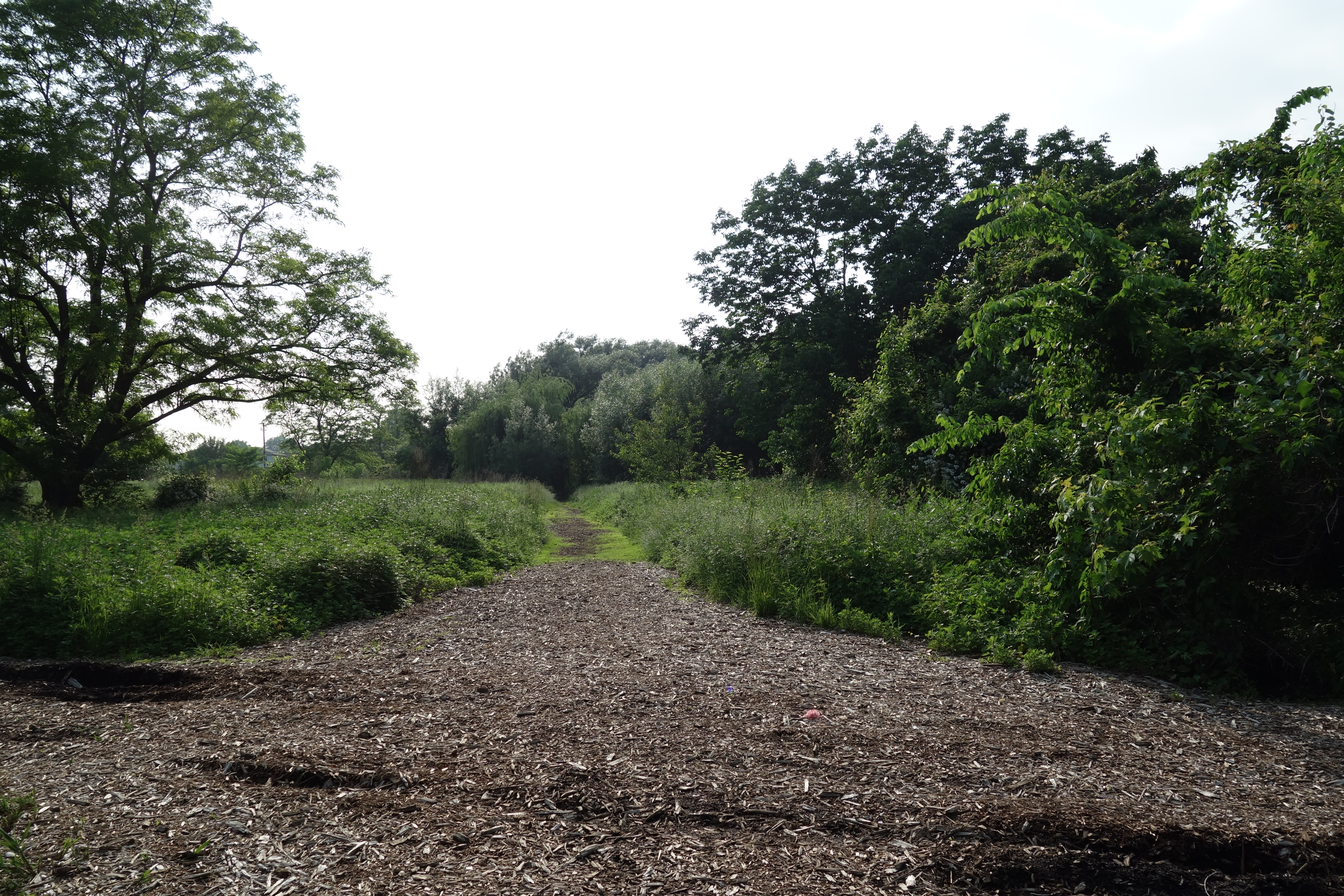 Looking south along a park trail intersection with the former Central Railroad of Long Island (Stewart Railroad) right-of-way in the west end of Kissena Park in Flushing, Queens. The trail leads south to four baseball/softball fields at Booth Memorial Avenue near Parsons Boulevard, even though it looks like it leads into the wilderness.